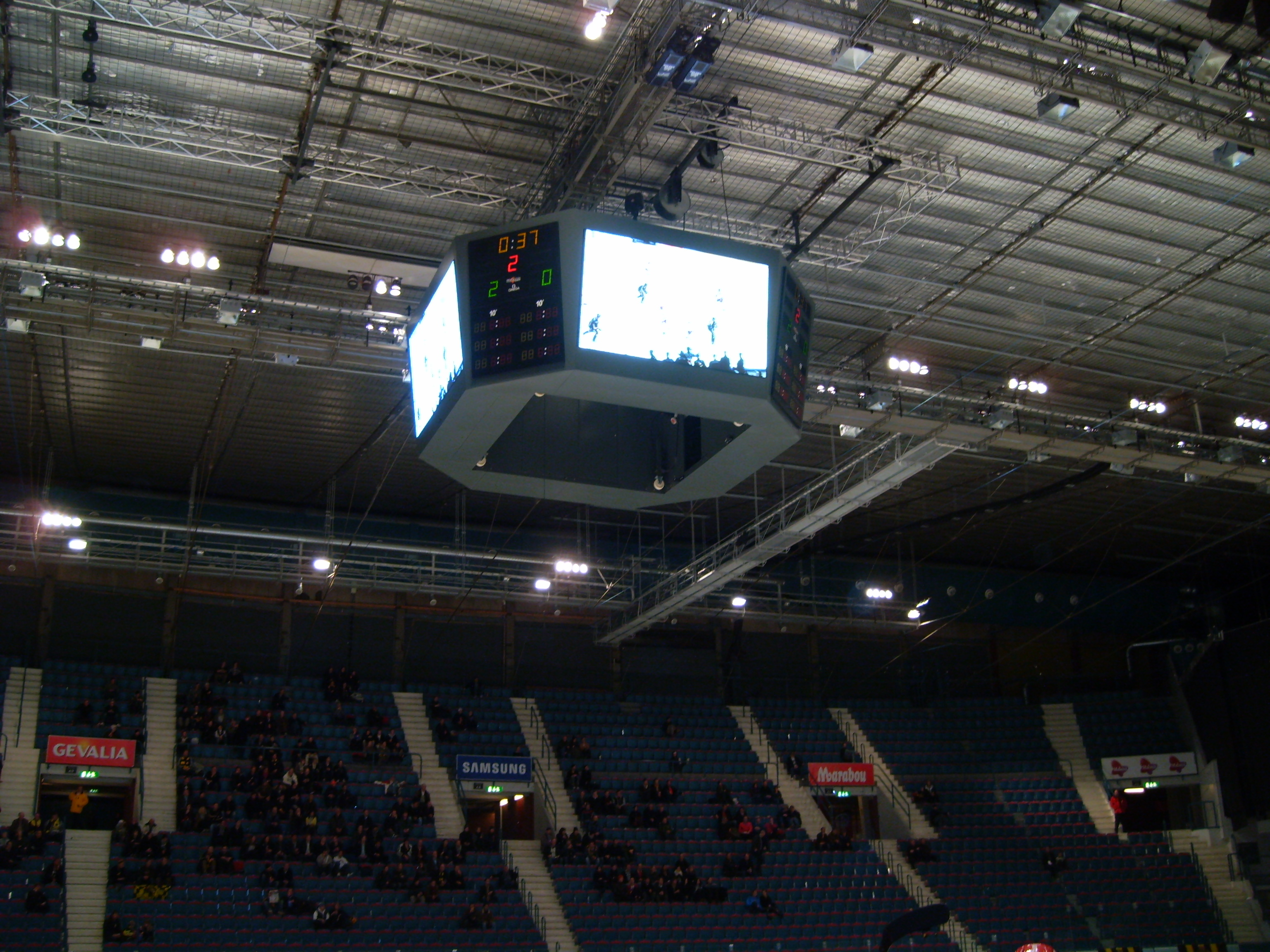 Jumbotron at Johanneshov Istadion, Stockholm, Sweden